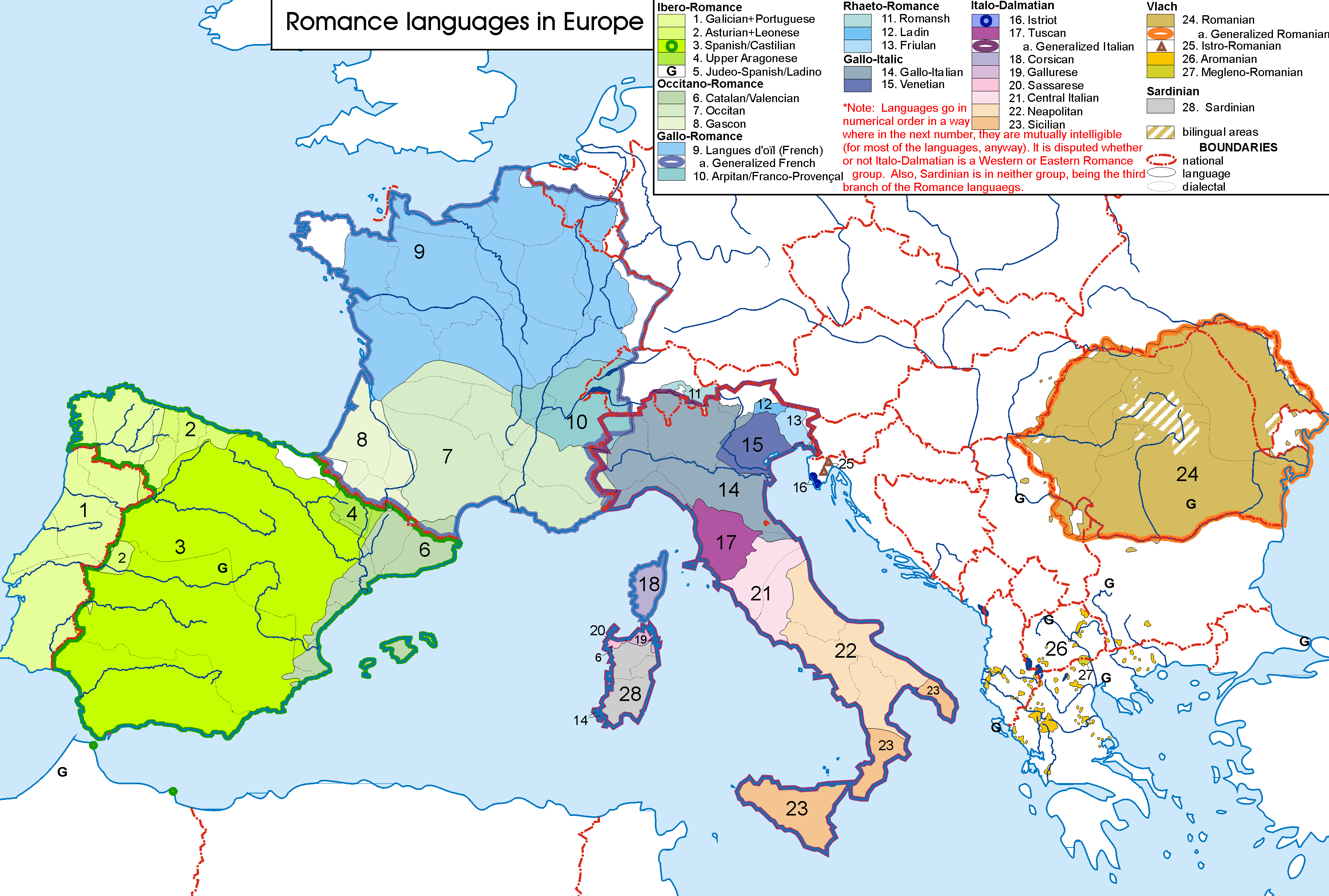 Romance languages in the 20th century Europe.